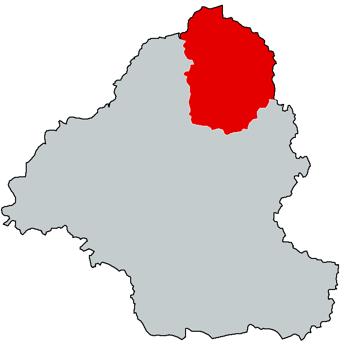 Location of Yuncheng county in Heze City, China